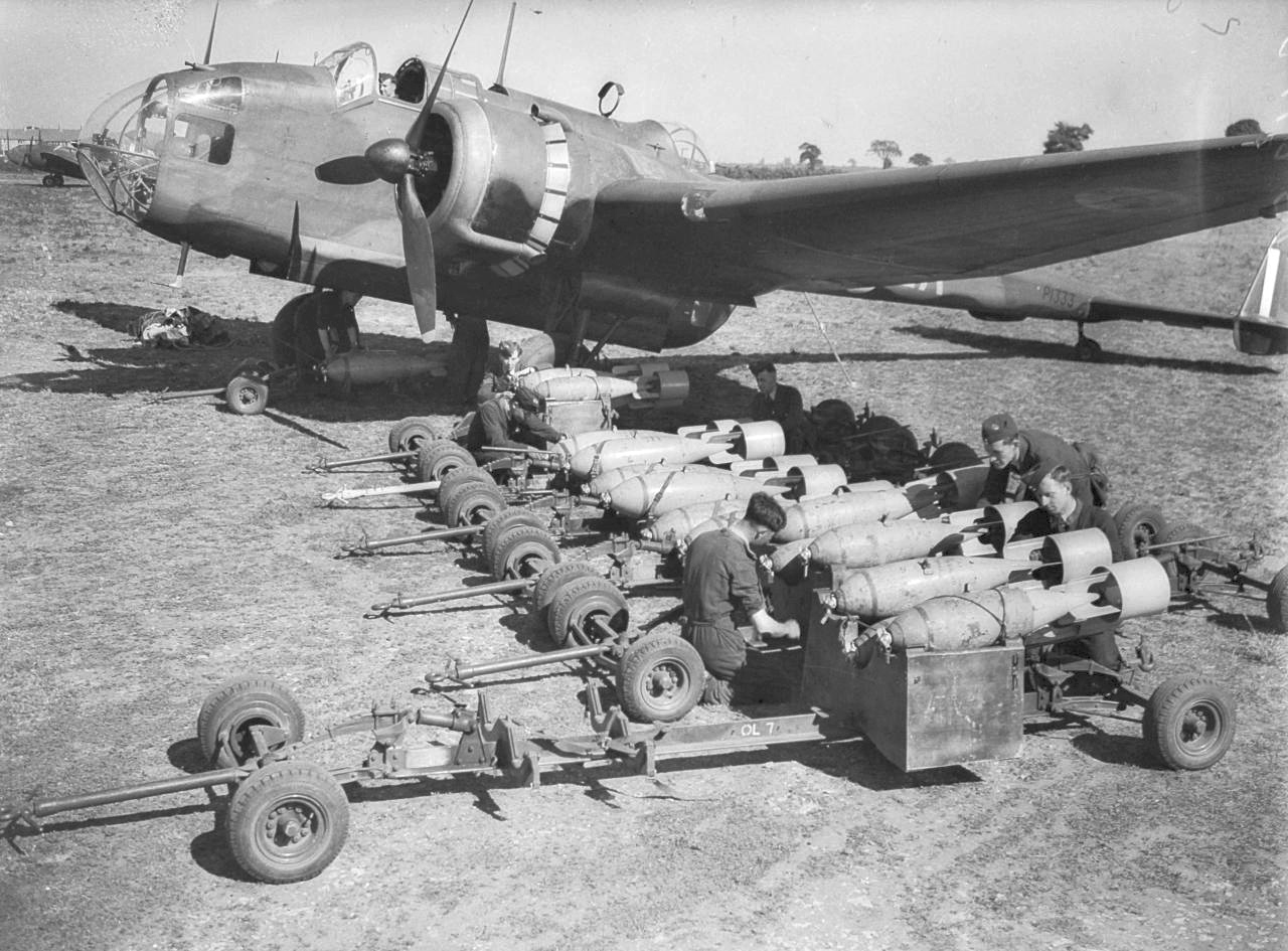 From a fascinating set of World War II photos, mainly medium format transparencies and some negatives. See set description for more information.